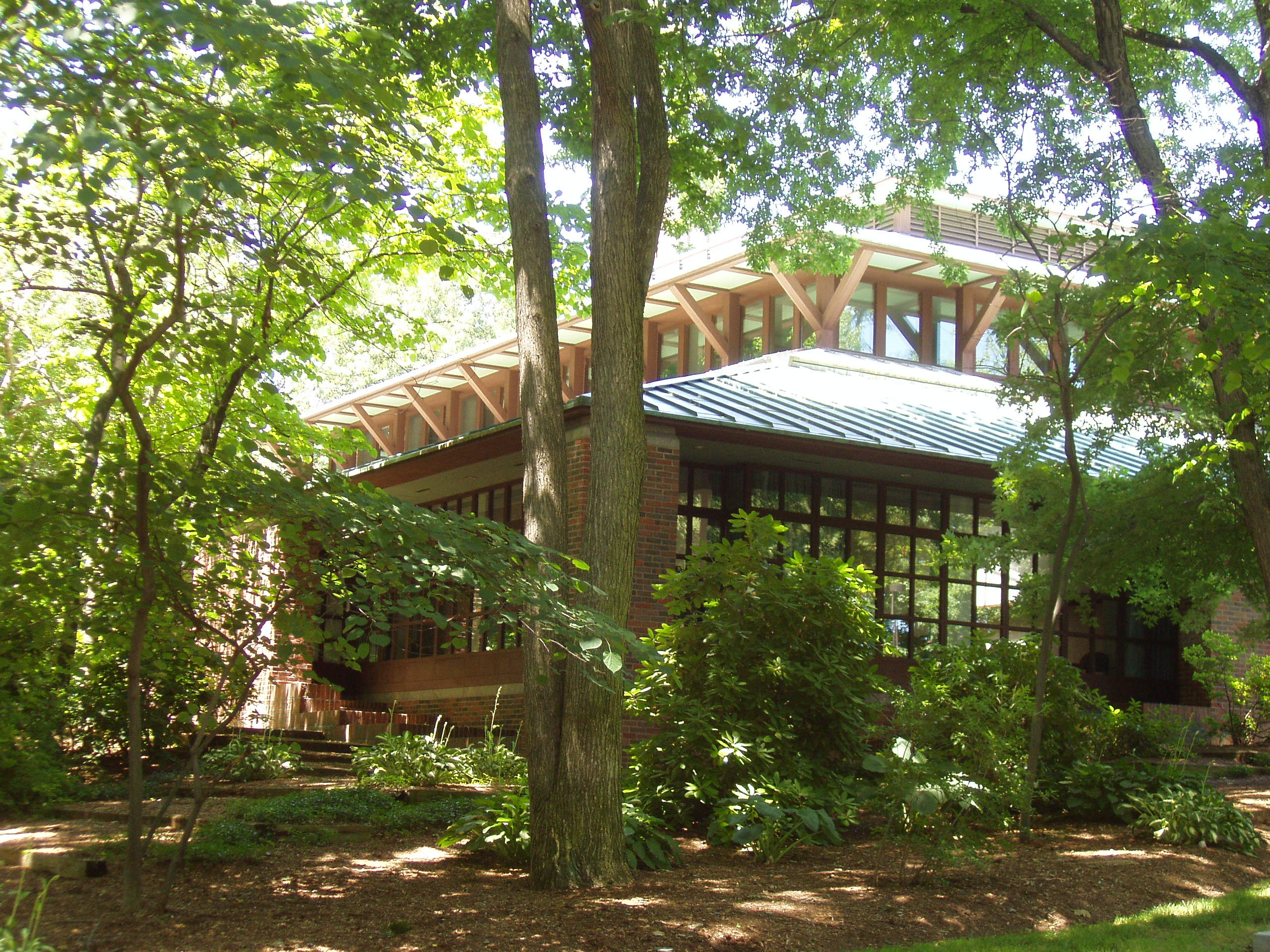 National headquarters of the American Academy of Arts and Sciences, Cambridge, Massachusetts. Photograph taken by me, July 2005.